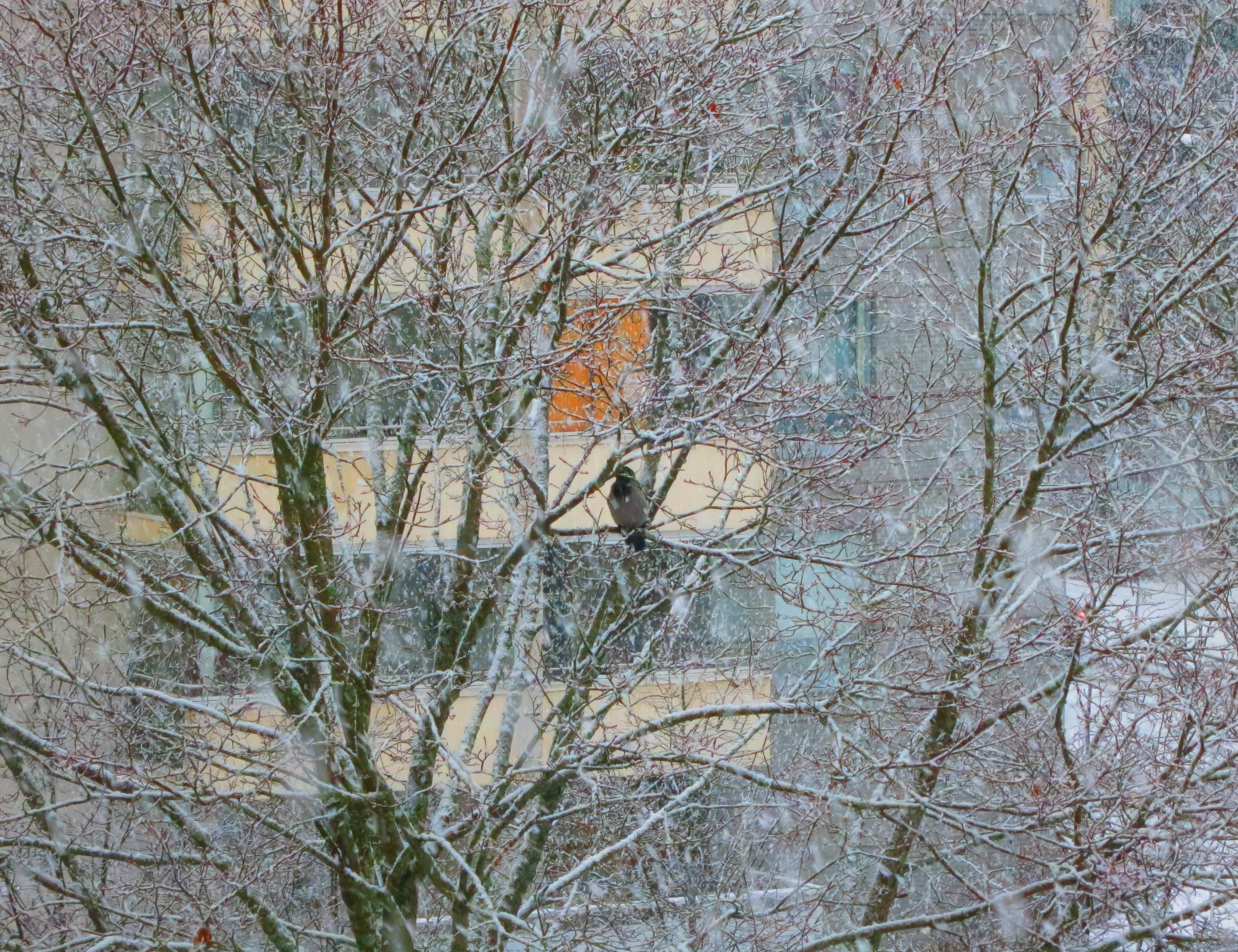 Corvus corone cornix on Acer platanoides tree (Hyvinkää, Finland)